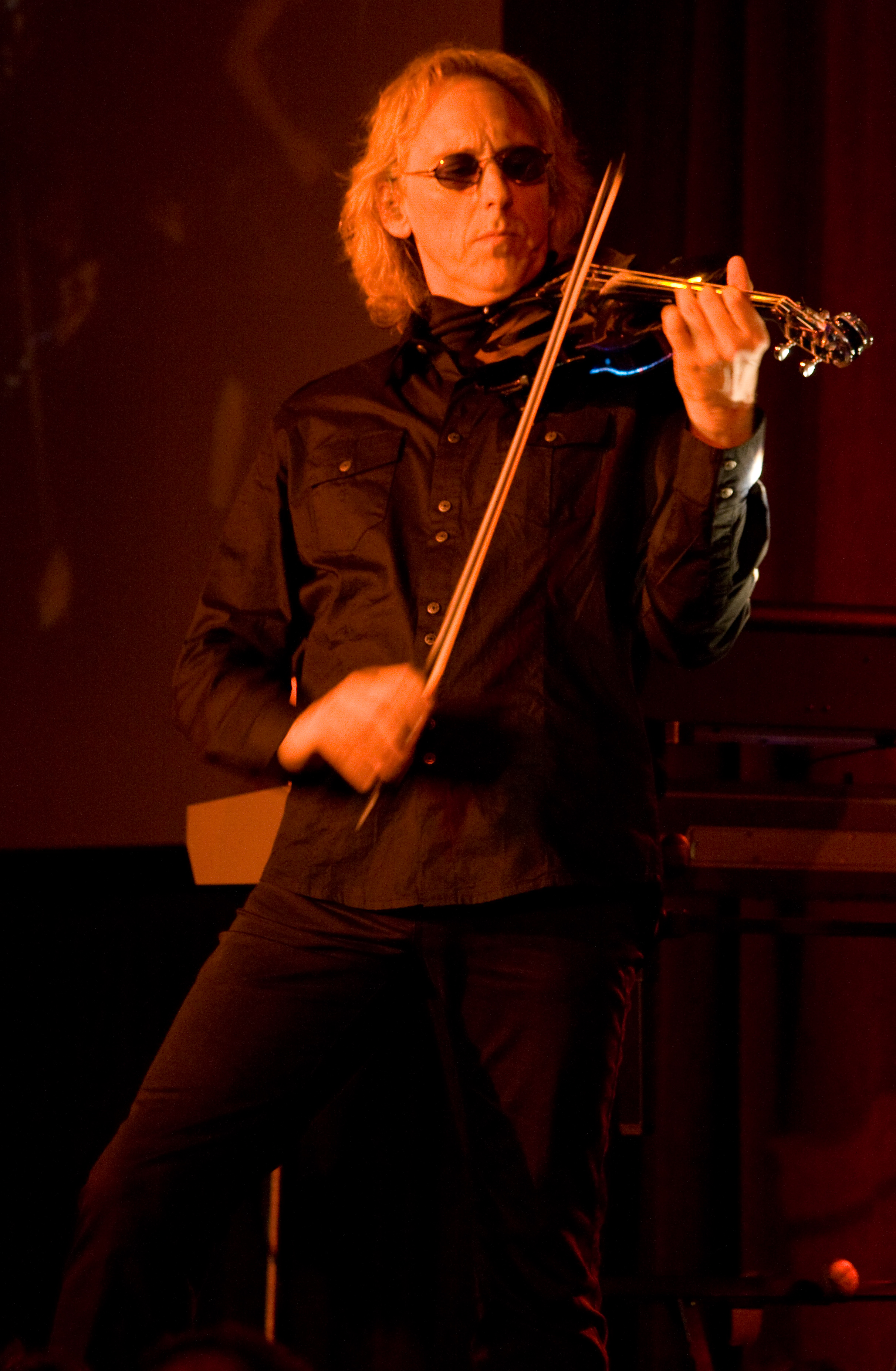 Eddie Jobson on stage with UKZ - BB Kings, NYC, August 20, 2009